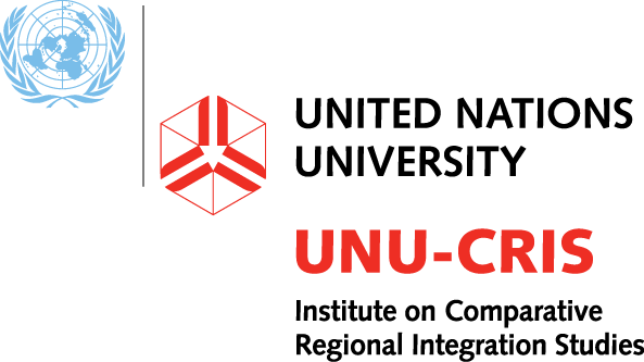 The United Nations University Institute on Comparative Regional Integration Studies - logo